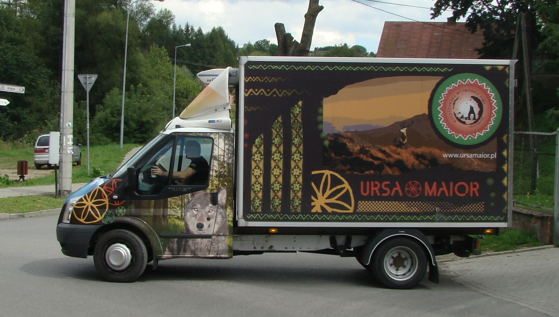 Polish Ursa Maior brewery delivery truck in Lesko, Poland.